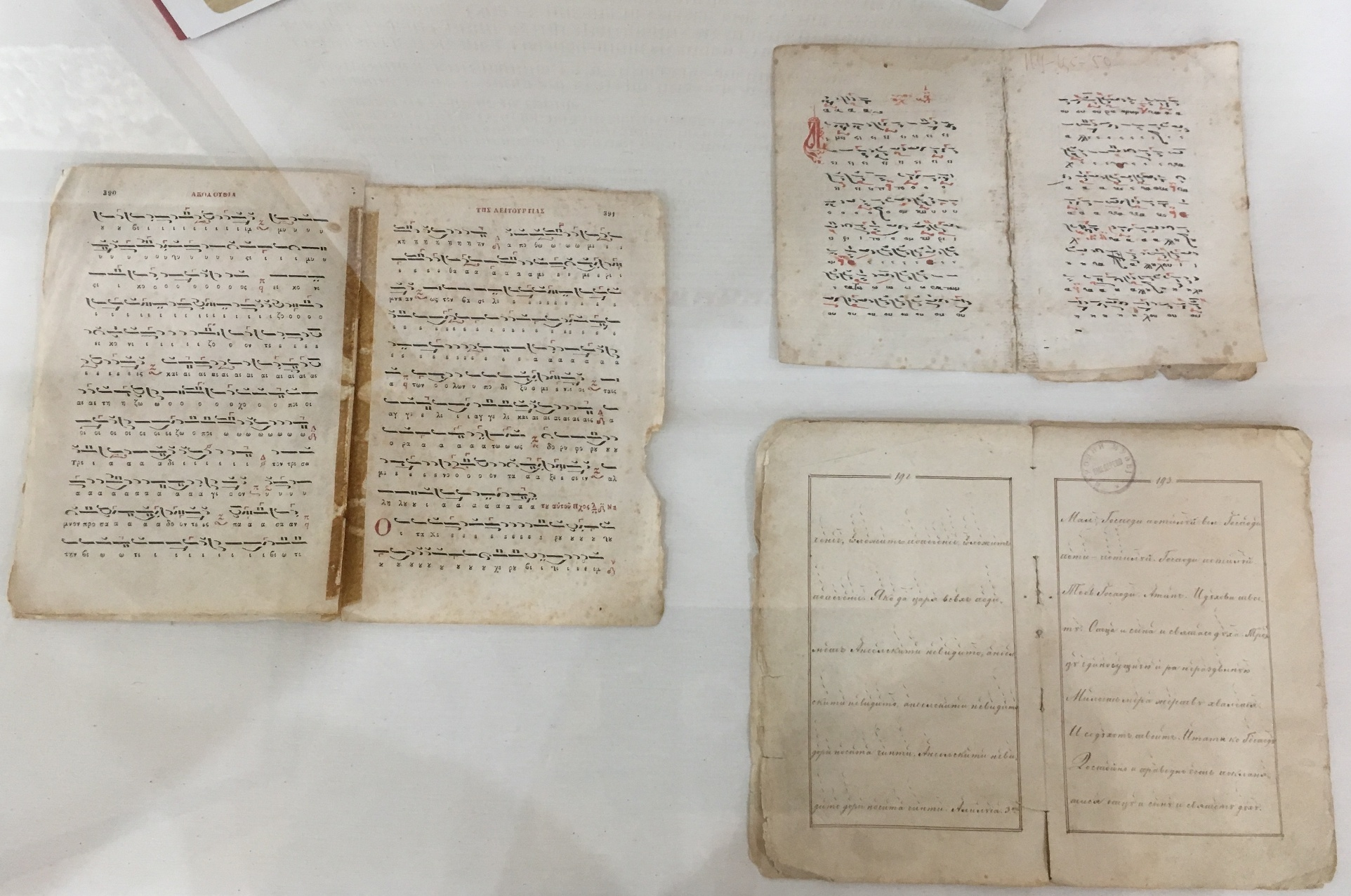 Neumes - medieval musical notes by Serbian composer Kir Stefan Srbin, museum of Smederevo